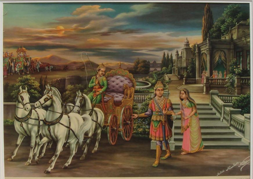 Uttra Abhimanue Narotam, Nathdwara Product Code: 12B_B-6 Condition: Very Good Availability: Sold Size: 14 x 20 Inches Medium: Oleograph Year: 1920's